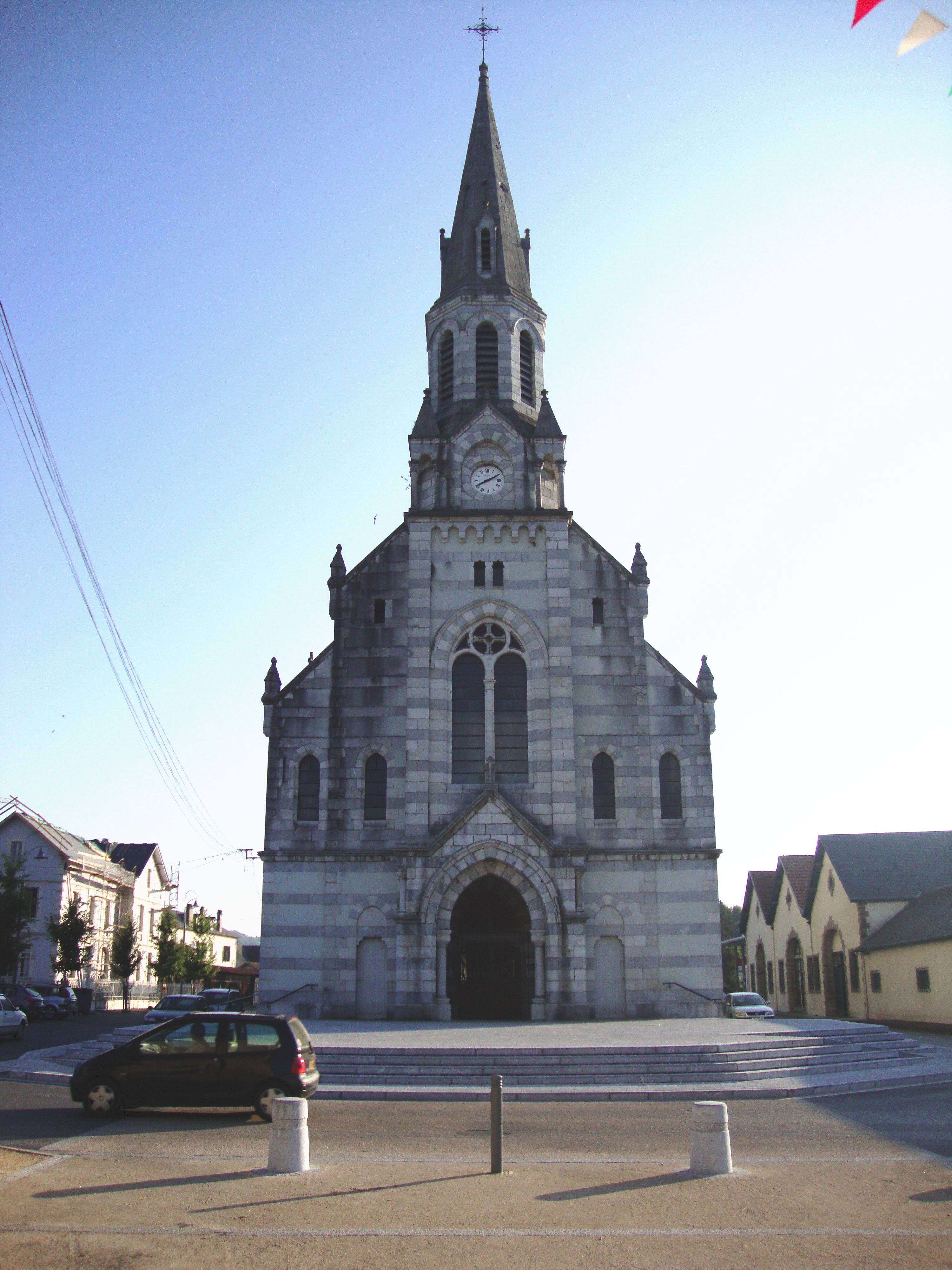 Mauléon-Licharre (Pyr-Atl, Fr) church Saint-Jean-Baptiste.